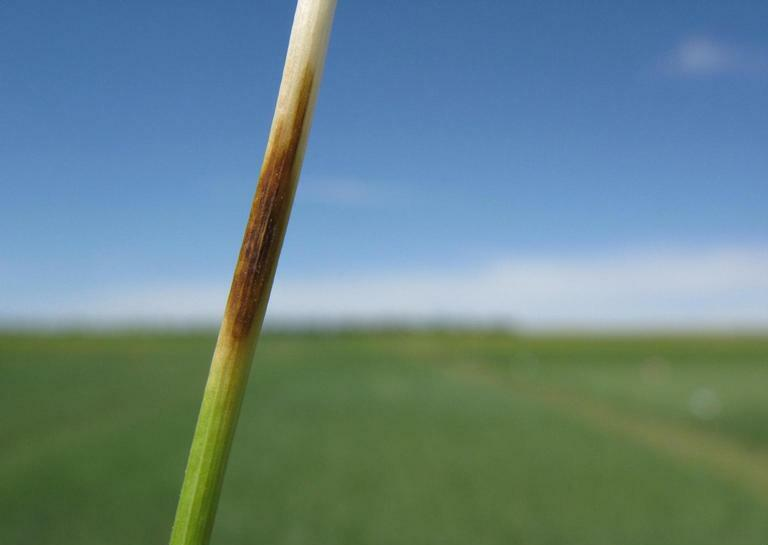 Eyespot (Symptoms) Oculimacula sp. Crous & W Gams,003 Image location: Bozeman, Montana, United States This image contains digital watermarking or credits in the image itself. The usage of visible watermarks is discouraged. If a non-watermarked version of the image is available, please upload it under the same file name and then remove this template. Ensure that removed information is present in the image description page and replace this template with metadata from image or attribution metadata from licensed image . Caution: Before removing a watermark from a copyrighted image, please read the WMF's analysis of the legal ramifications of doing so, as well as Commons' proposed policy regarding watermarks. If the old version is still useful, for example if removing the watermark damages the image significantly, upload the new version under a different title so that both can be used. After uploading the non-watermarked version, replace this template with superseded|new filename|version without watermarks .